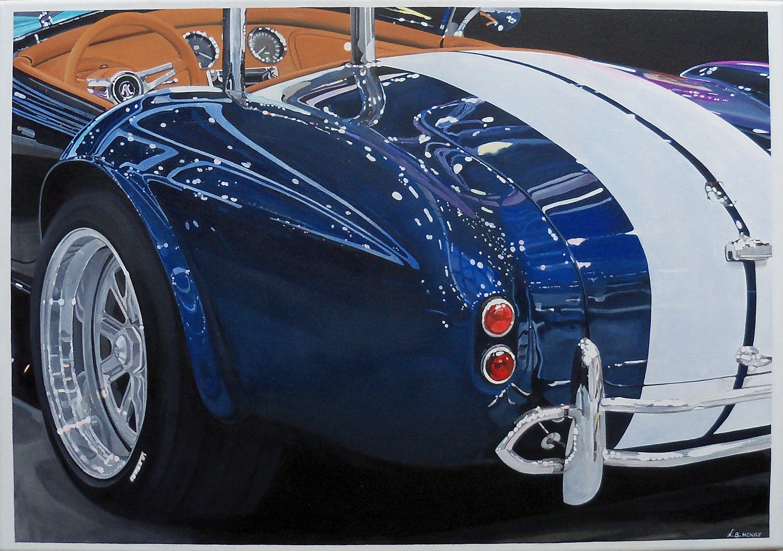 Acrylique sur toile 65 x 46 cm Mai 2011